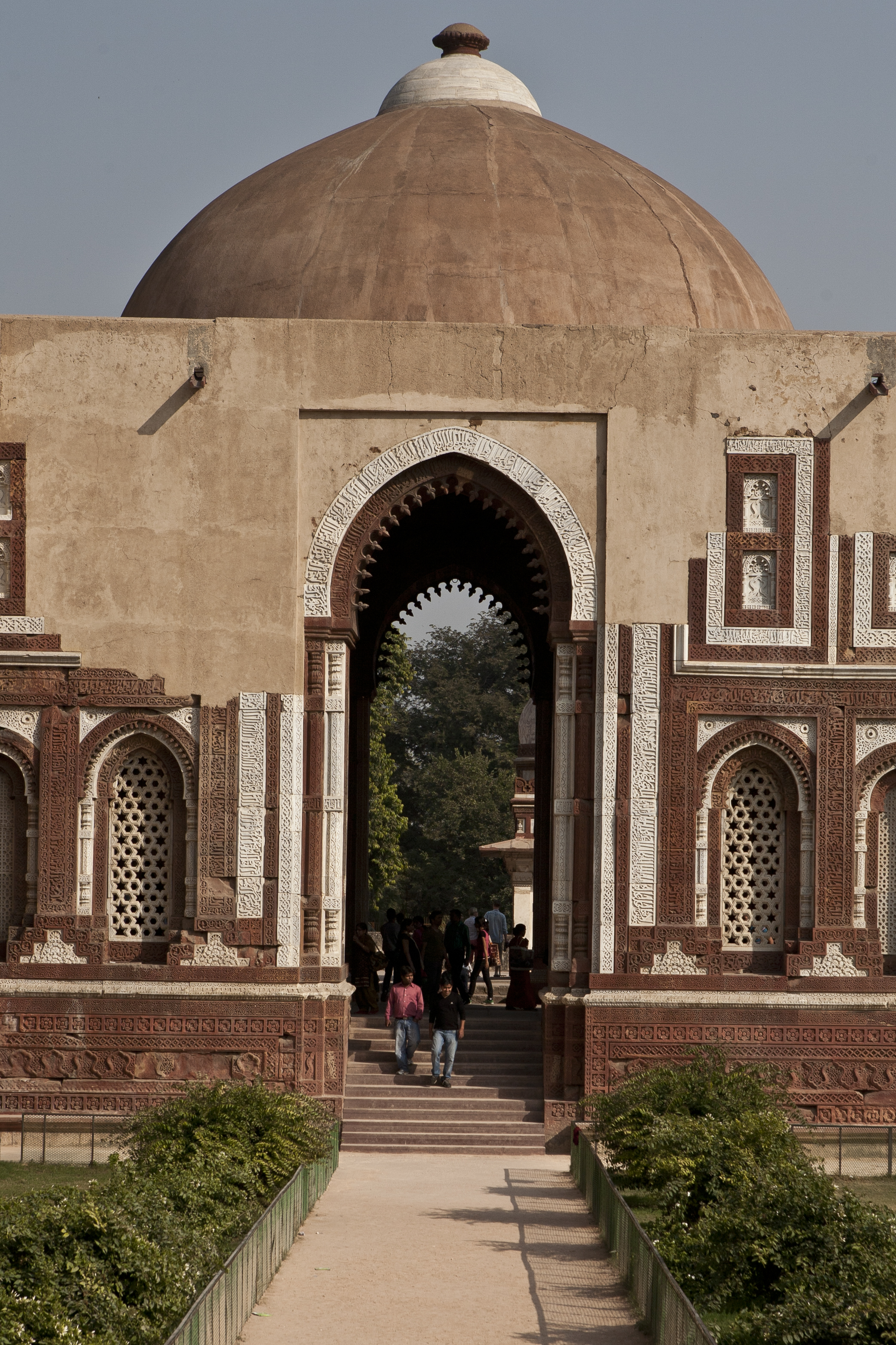 Alai Darwaza built by Alauddin Khilji